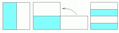 the Baker map